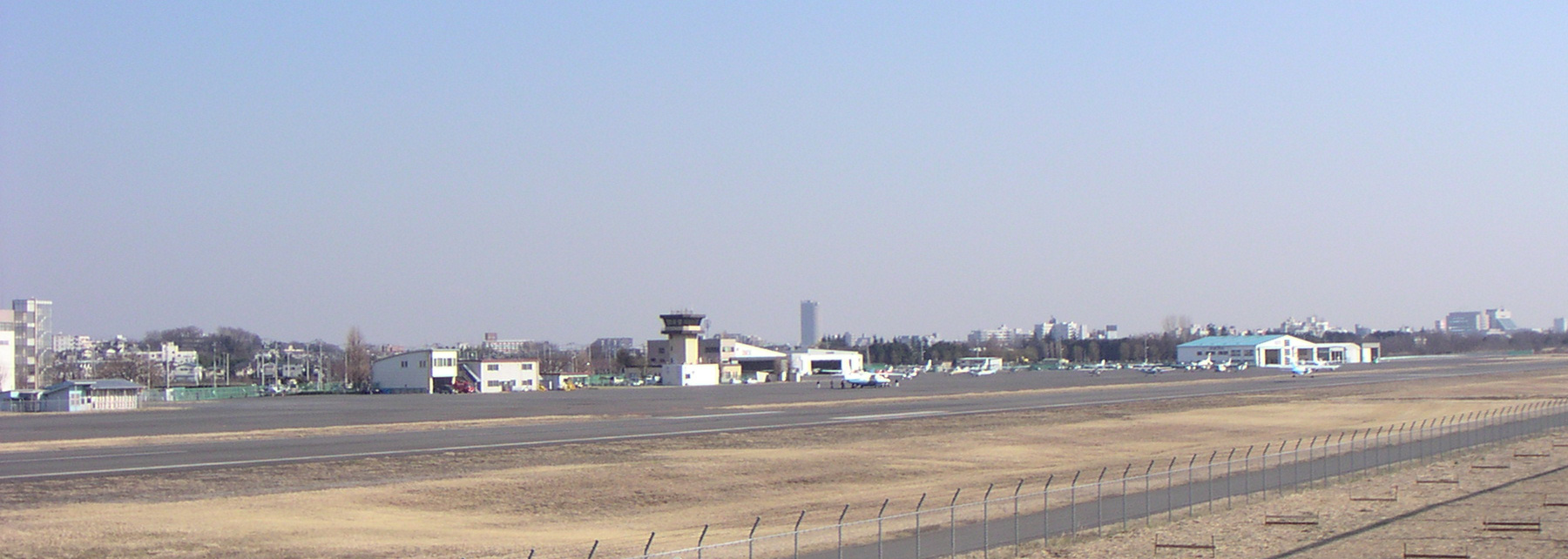 Chofu airport